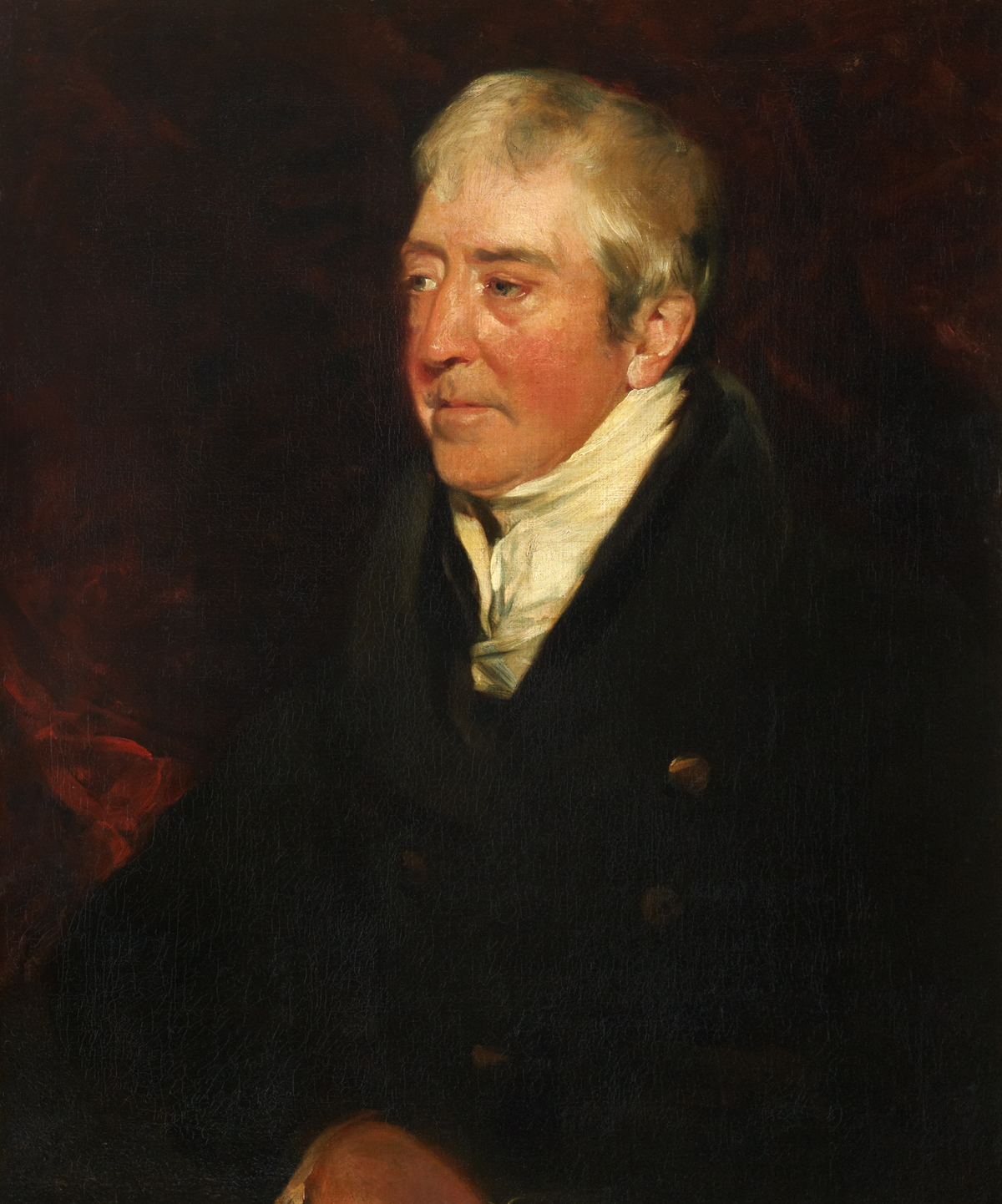 Geddes, Andrew; Alexander Nasmyth (1758-1840), HRSA; Royal Scottish Academy of Art & Architecture; wild guess at 1810 for date